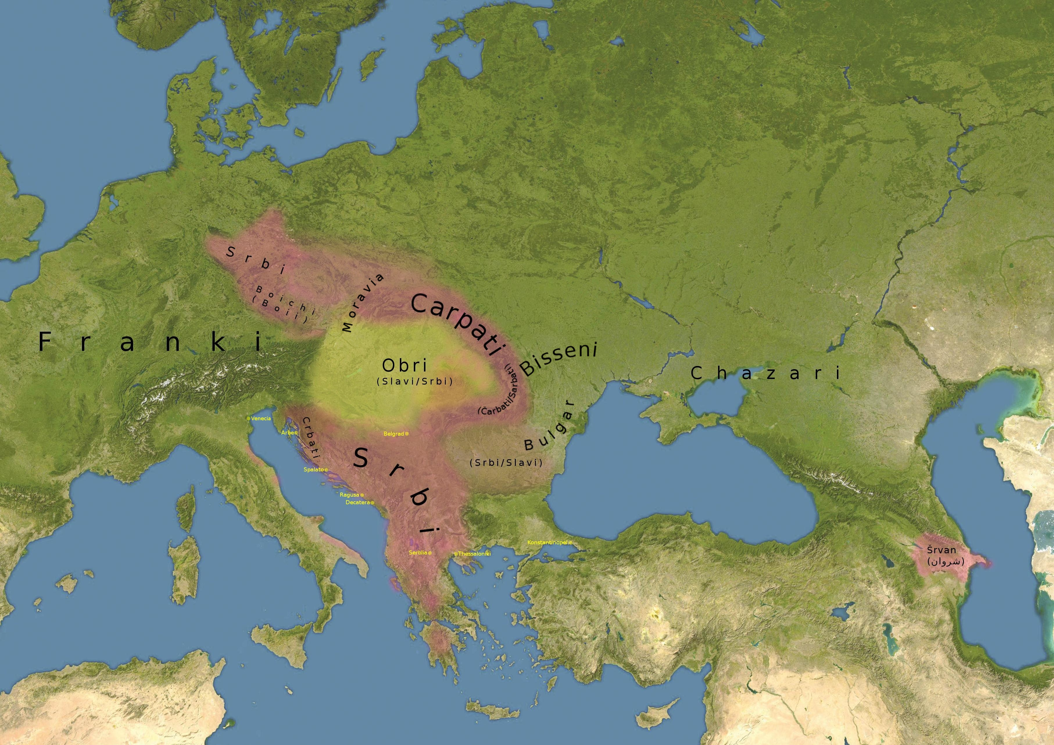 Location map of Europe, satellite image Equirectangular projection, N/S stretching 150 %. Geographic limits of the map: * N: 72° N * S: 34° N * W: 25° W * E: 60° E +serbian medieval settlement